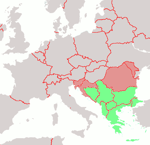 A map of the balkanic peninsula (2004)